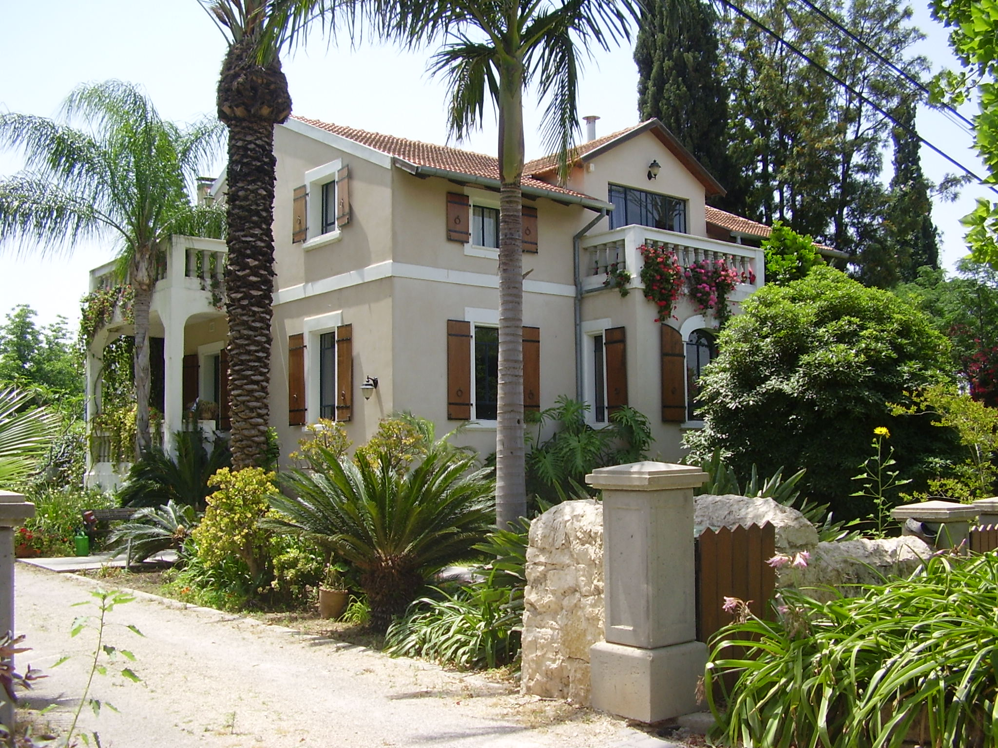 renovated templer house in bnei-atarot (former - wilhelma)